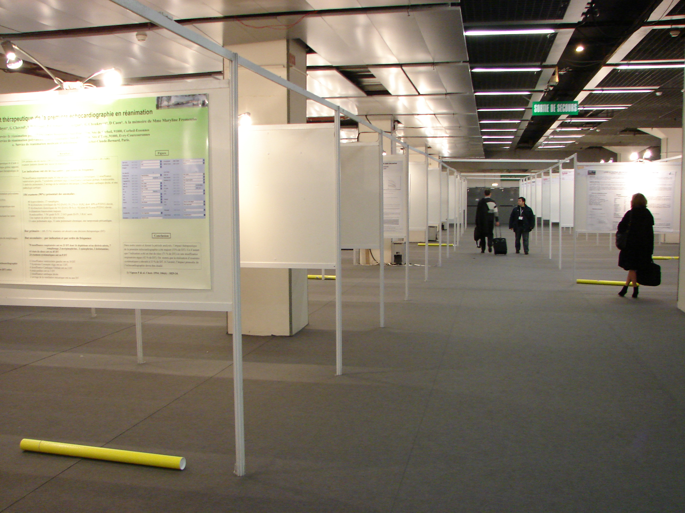 Scientific poster session at 39th international congress of intensive care medicine